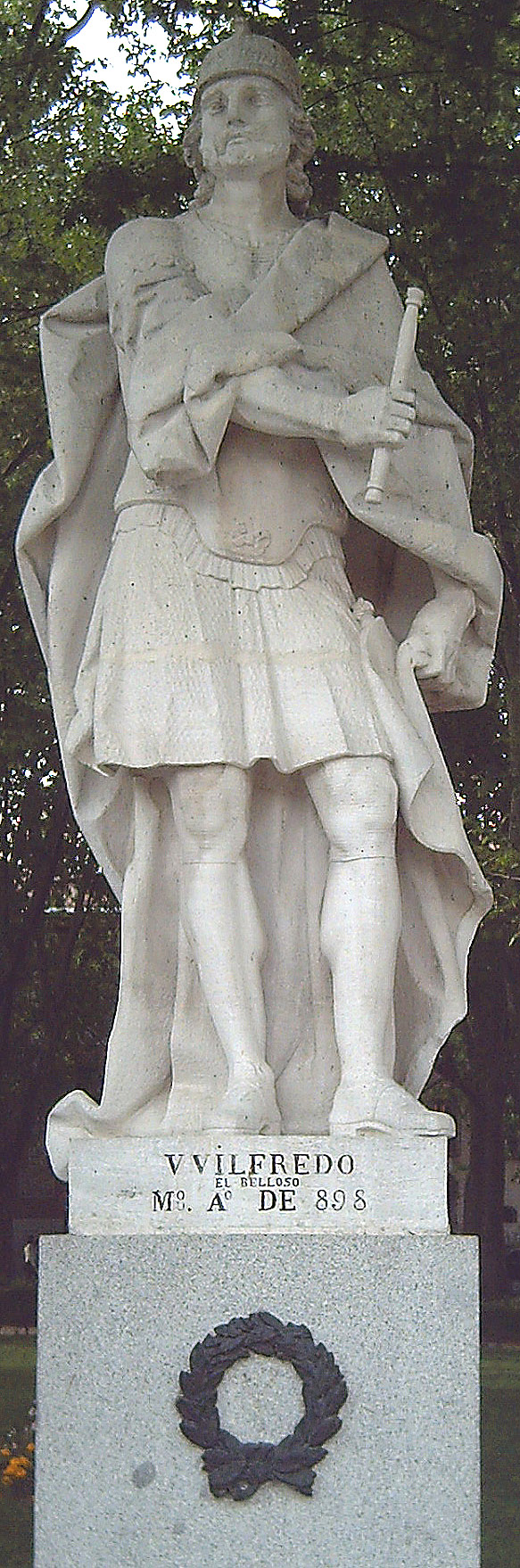 Statue of Wilfred the Hairy († 897) at the Plaza de Oriente (square) in Madrid (Spain). Sculpted in white stone by Luis Salvador Carmona (1709–1767) between 1750 and 1753.